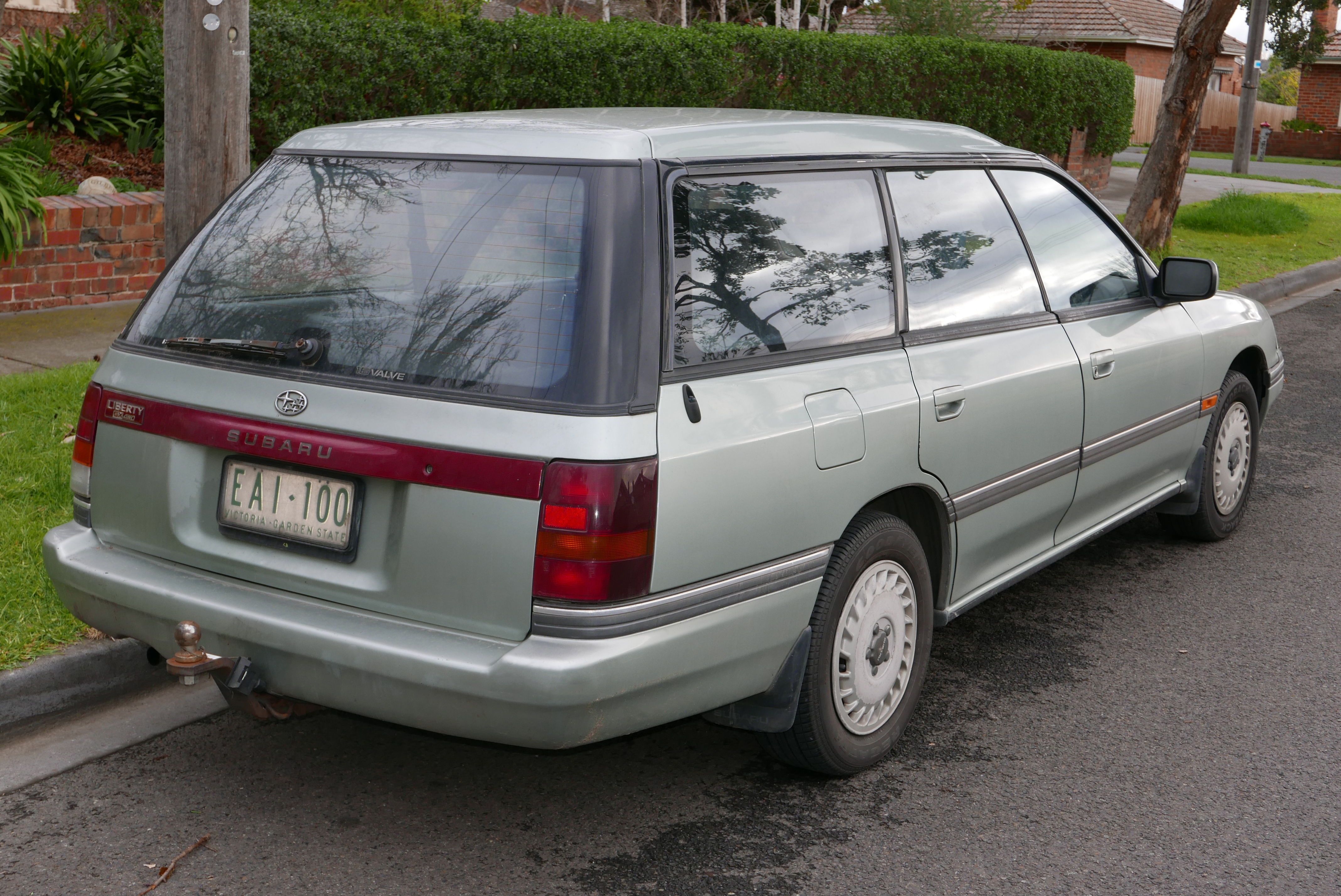 1989 Subaru Liberty (BFB) GX 4WD station wagon. Photographed in Balwyn, Victoria, Australia. Vehicle registration enquiry results Jurisdiction Victoria Registration EAI100 Chassis code JF2BFBAR0EJ002546 Engine code 169280 Compliance date 1989-10 Year of manufacture 1989